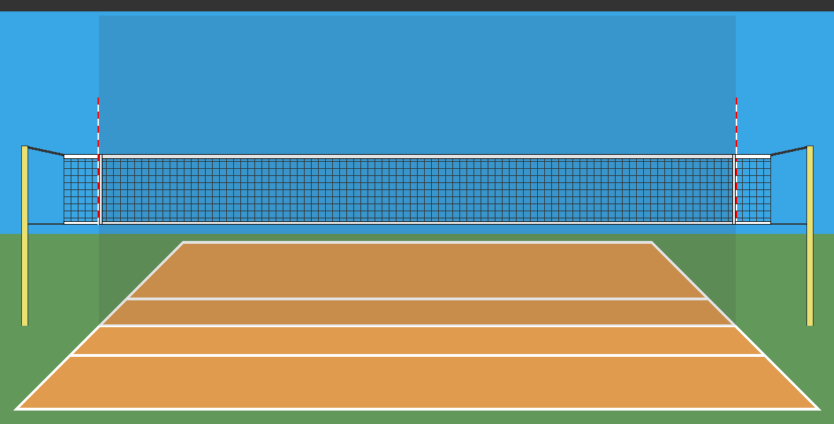 Volleyball network space